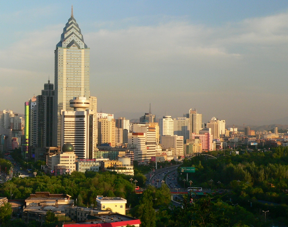 The city of Urumqi, Xinjiang, China PR. The tallest building is Zhong Tian Plaza, tallest one in Northwestern China and Central Asia.